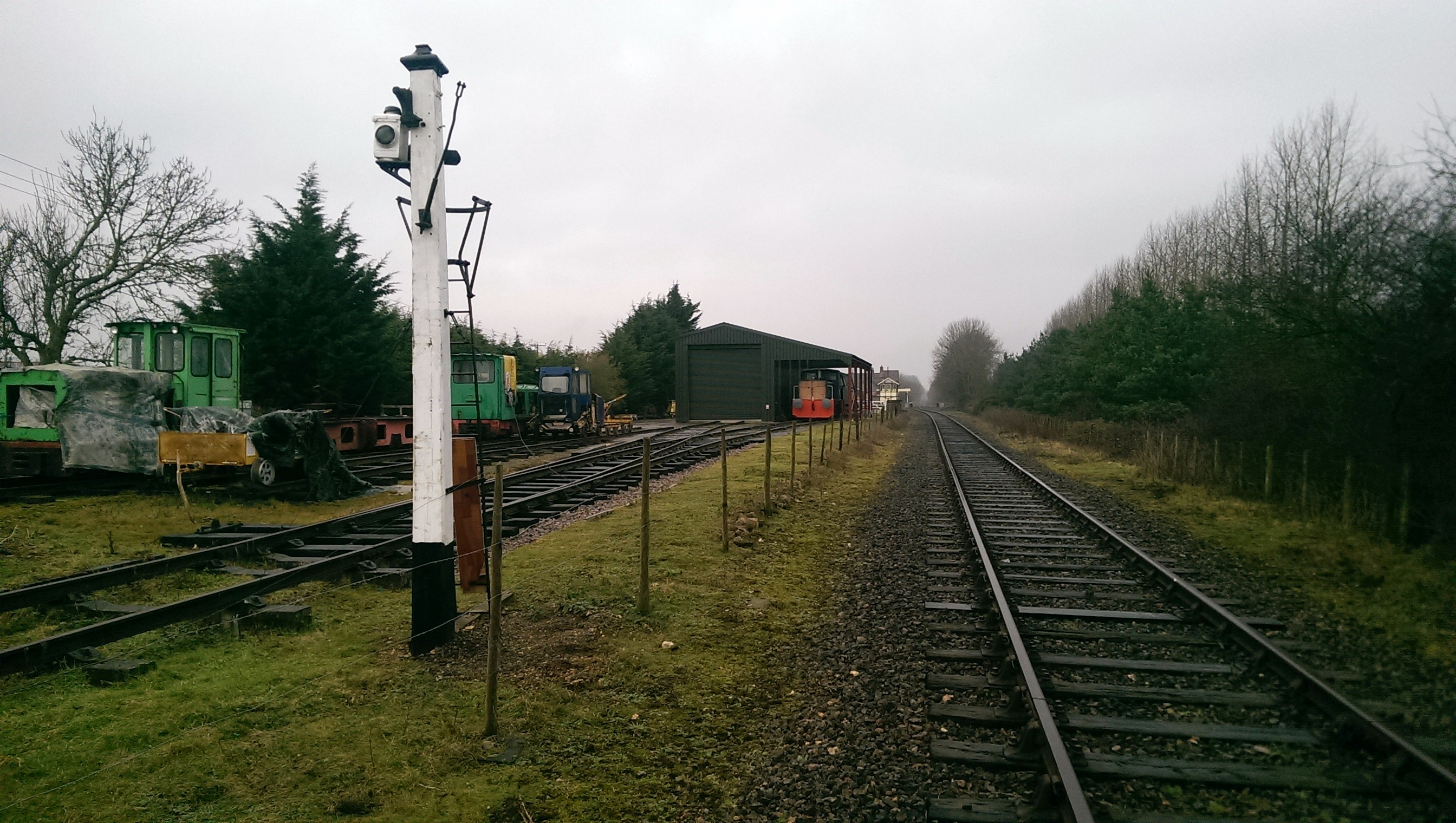 The former goods yard at Hardingham, Norfolk